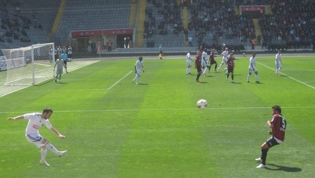 Turkish Super League match: Gençlerbirliği 0-0 K. Erciyesspor